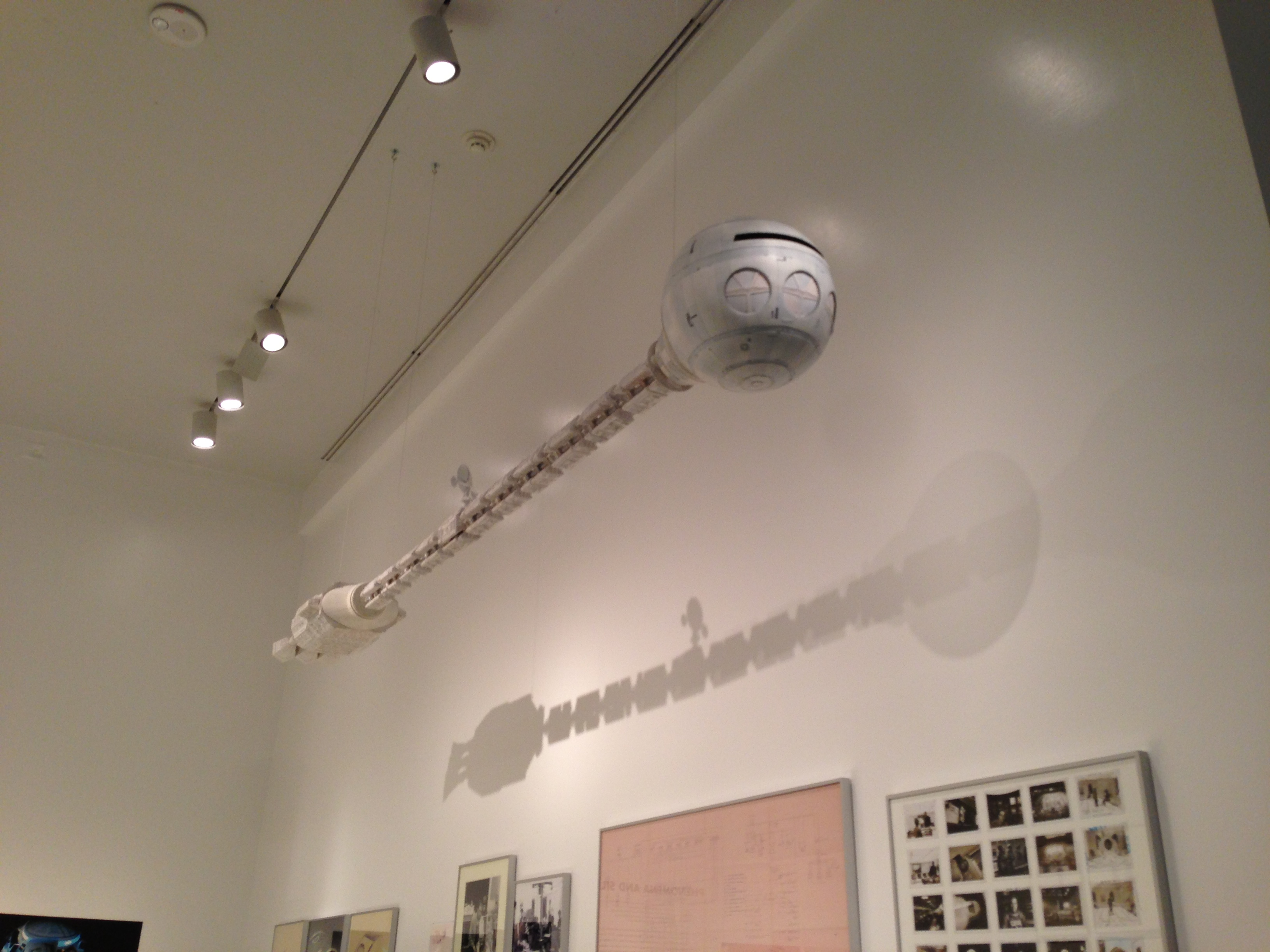 Reproduction of the Discovery One spaceship from the 1968 film 2001: A Space Odyssey by Stanley Kubrick.[1] Stanley Kubrick exhibit at Los Angeles County Museum of Art.